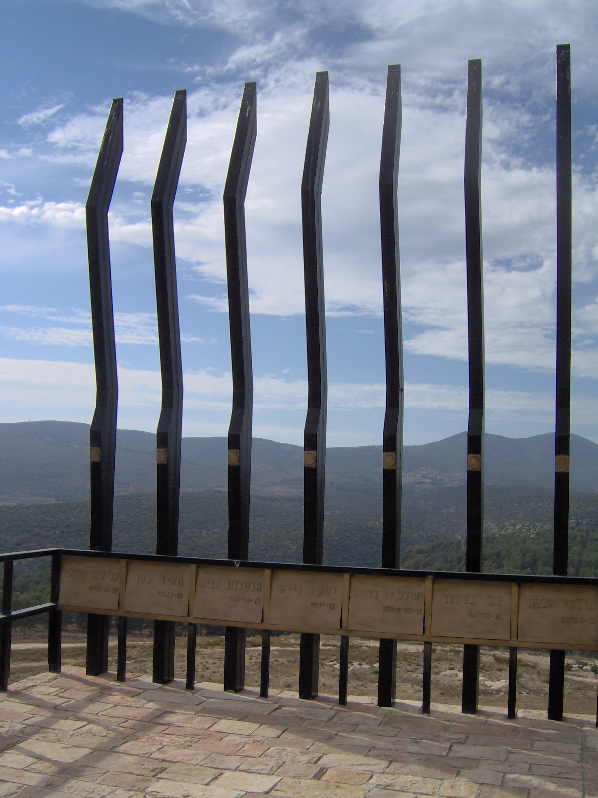 Monument of Etzel fighters in Safed.